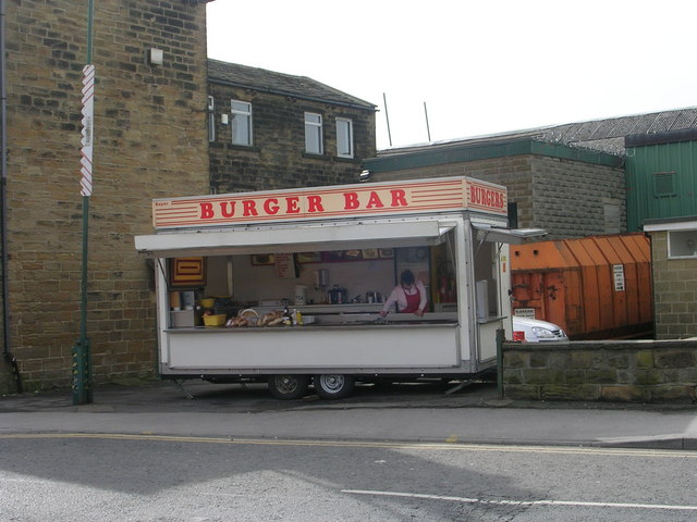 Burger Bar - Commercial Street